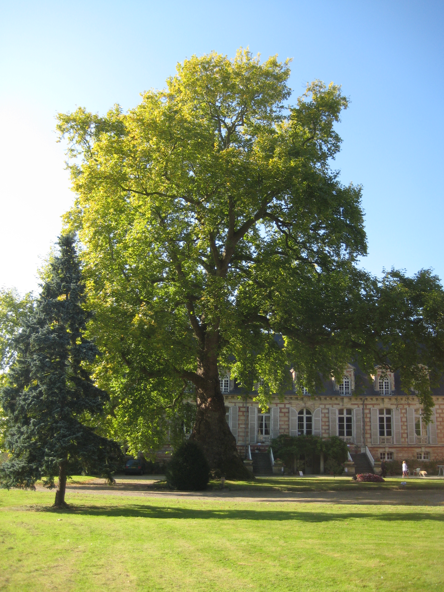 Oriental plane in the garden of castle Le Kinnor, Fervaques, Calvados, France. Oldest plane of France.